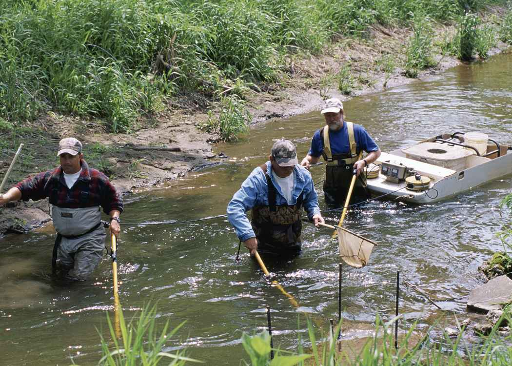 Image title: Fishermans in water fishing using electric power Image from Public domain images website